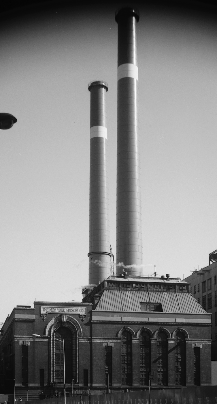 Waterside Generating Station, Manhattan, New York City, New York, USA. Built by the Pennsylvania Railroad in 1910. Operation ceased in 1978. (See Amtrak's 25 Hz traction power system.)